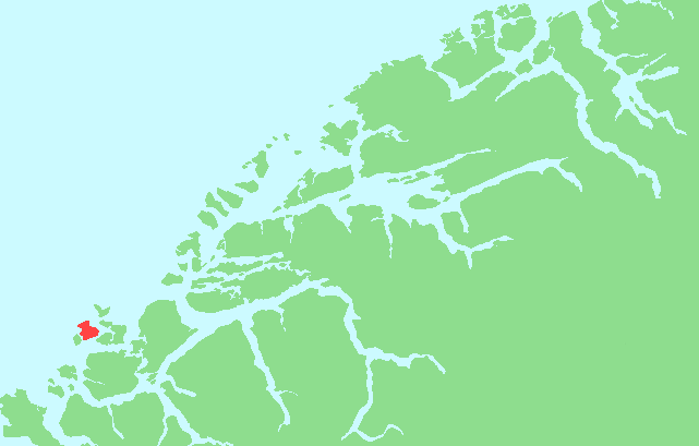 Locator map of Nerlandsøya, Møre og Romsdal, Norway